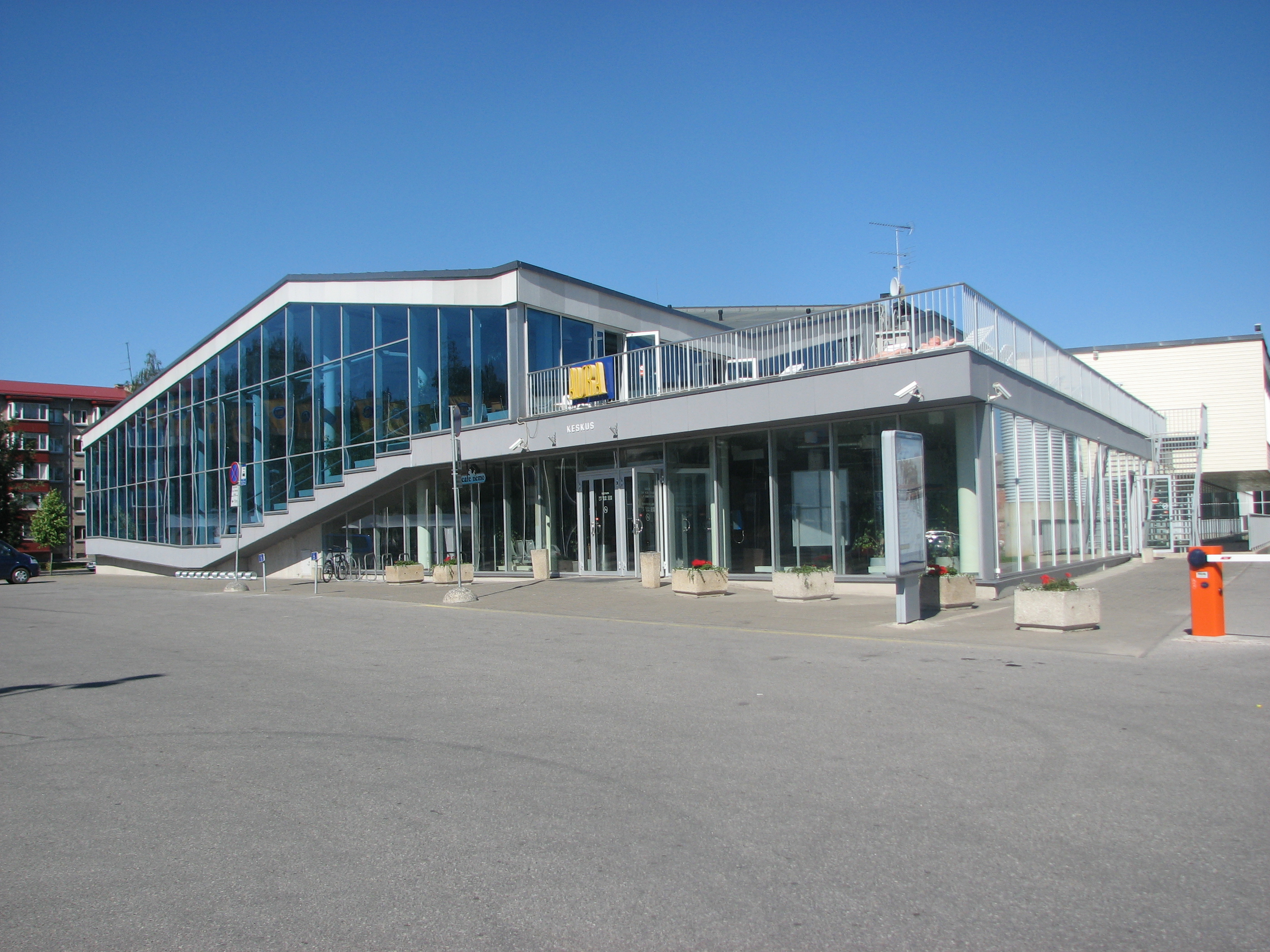 Pool, water park, health club, saunas, light therapy centre in Tartu, Estonia. 2007